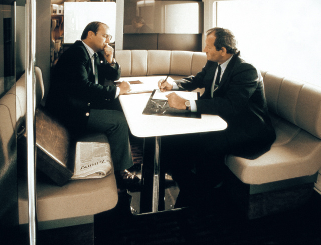 The business compartment on the InterCityExperimental. Just like various other ideas, it was not implemented on the series-built ICE 1 trains that would follow.